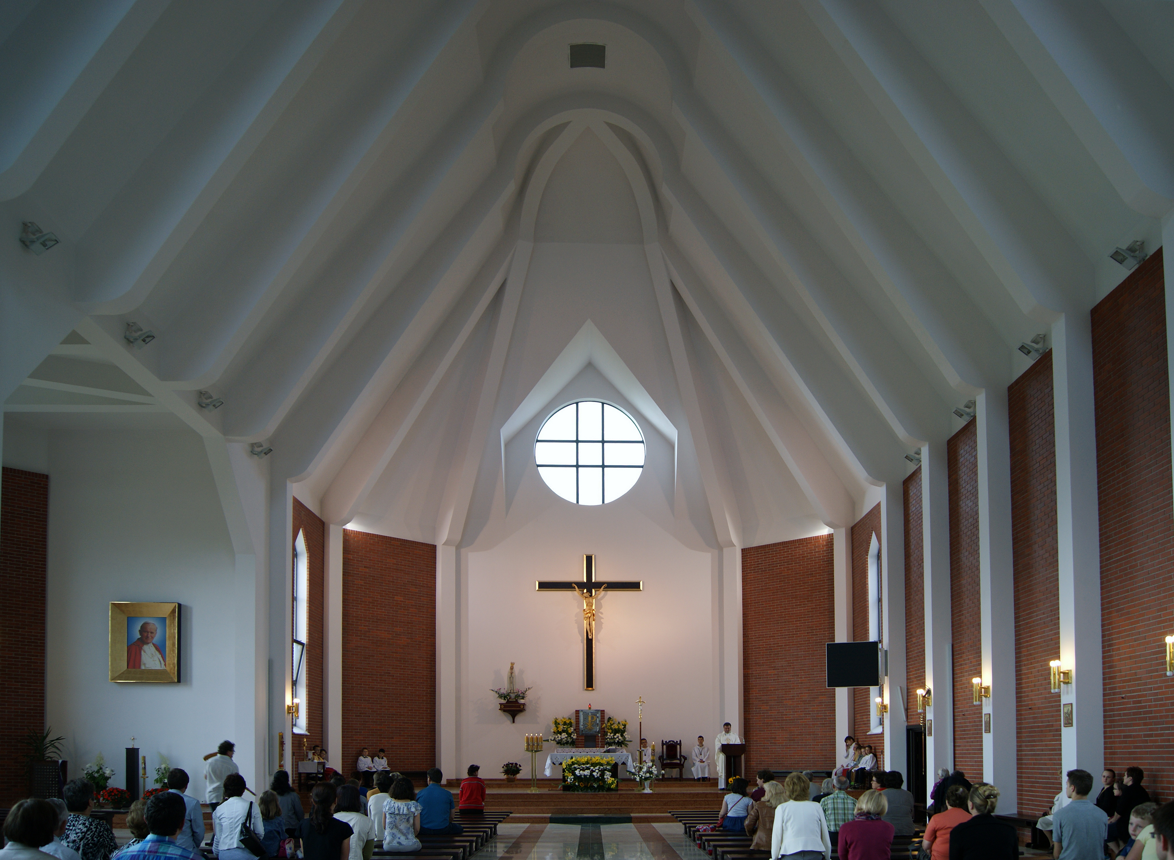 Our Lady of Fátima Church (interior), 11a Mały Płaszów street, Kraków, Poland